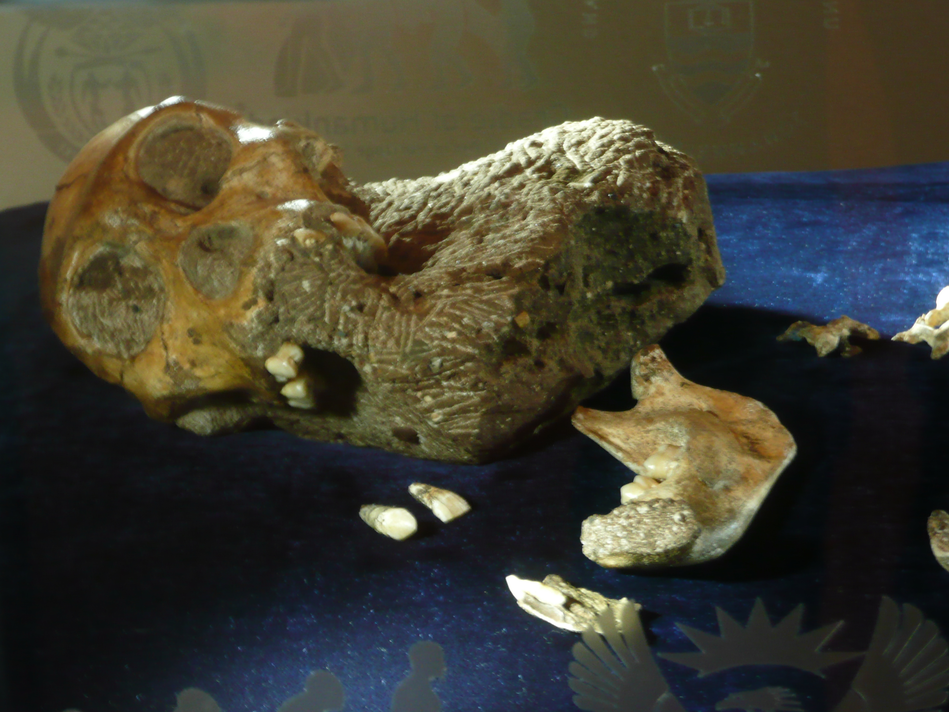 Australopithecus sediba, fossil of a boy aged 9 - 13; on display in Maropeng